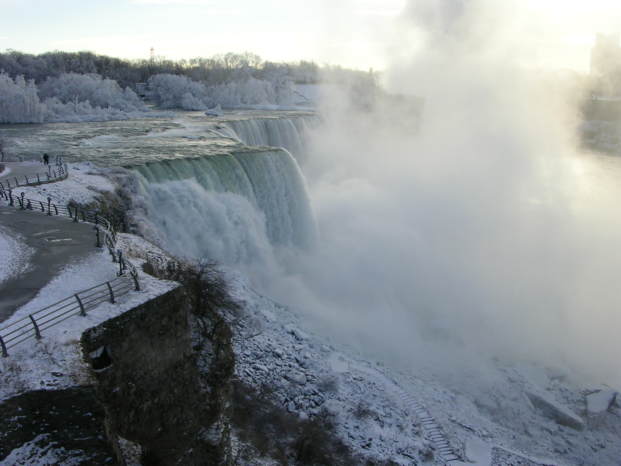 Photo of American Falls taken Dec. 20th, 2004 by MpegMan